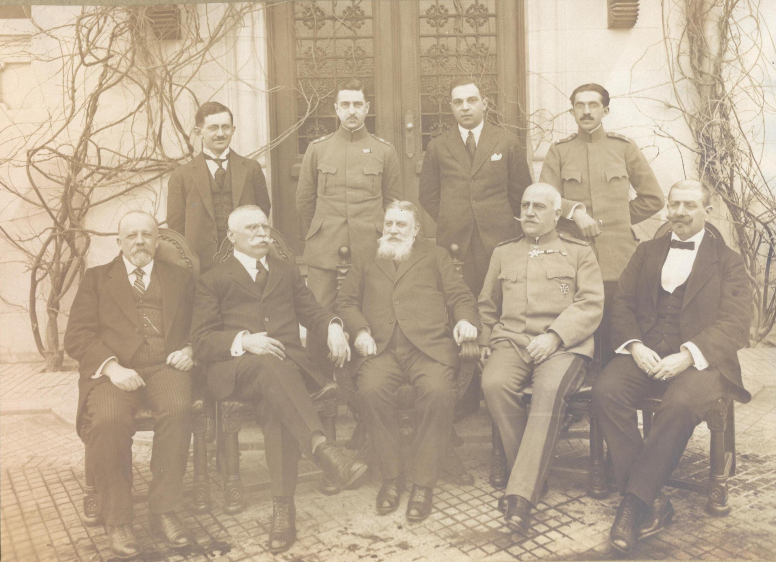 Bulgarian delegation in Treaty of Brest-Litovsk, March 1918